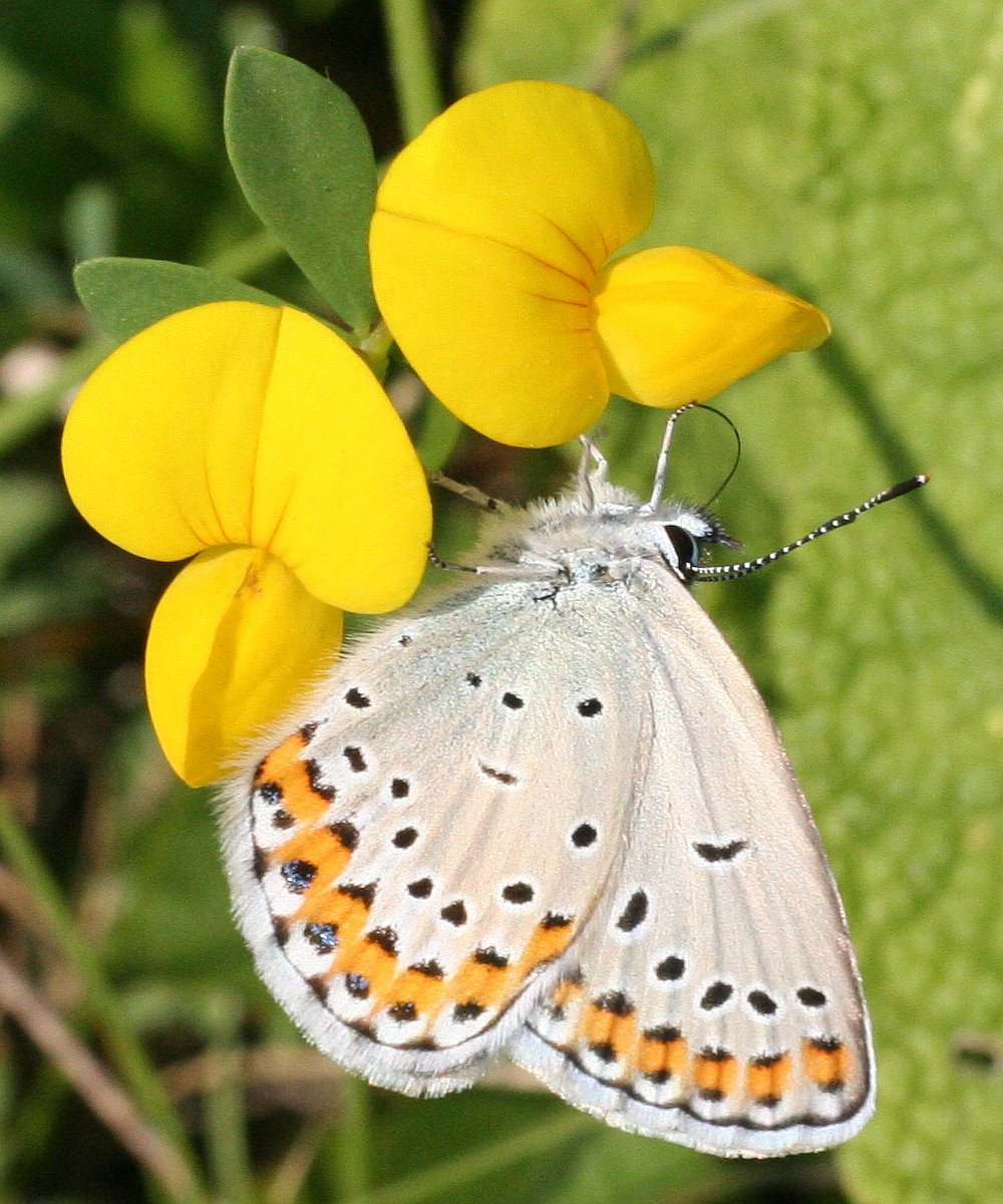 A female Plebeius argyrognomon butterfly, photographed in Weinsberg